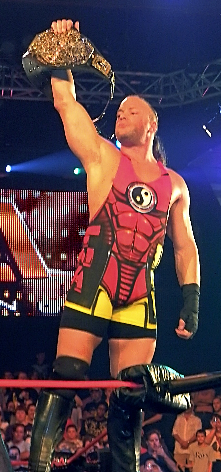 Rob Van Dam poses before his TNA World Title defense against Sting at Slammiversary 8.